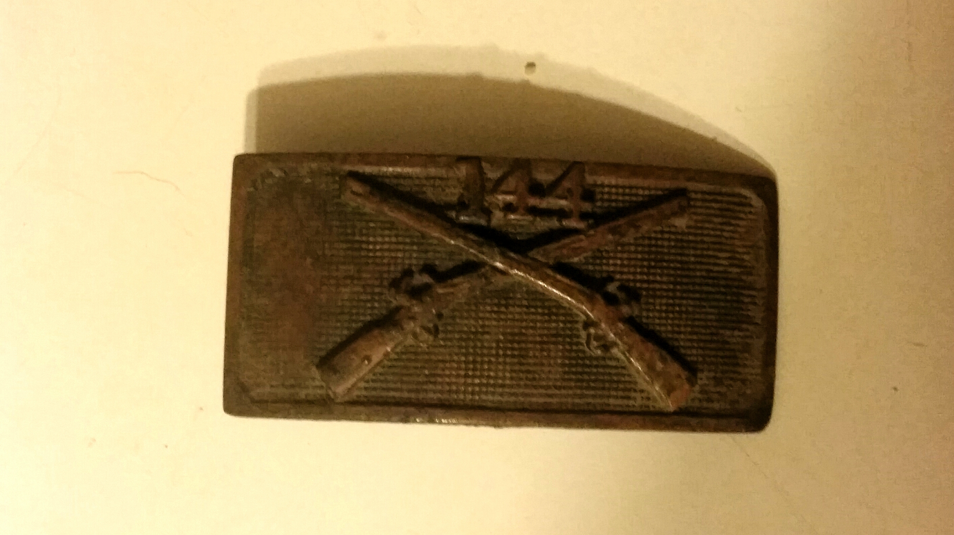 WW1 belt buckle from the 144th Infantry Regiment of the Texas National Guard.